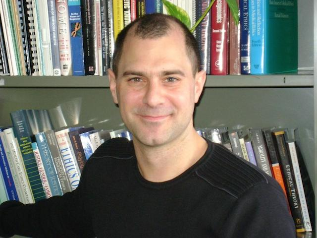 Bryn Williams-Jones, 2014